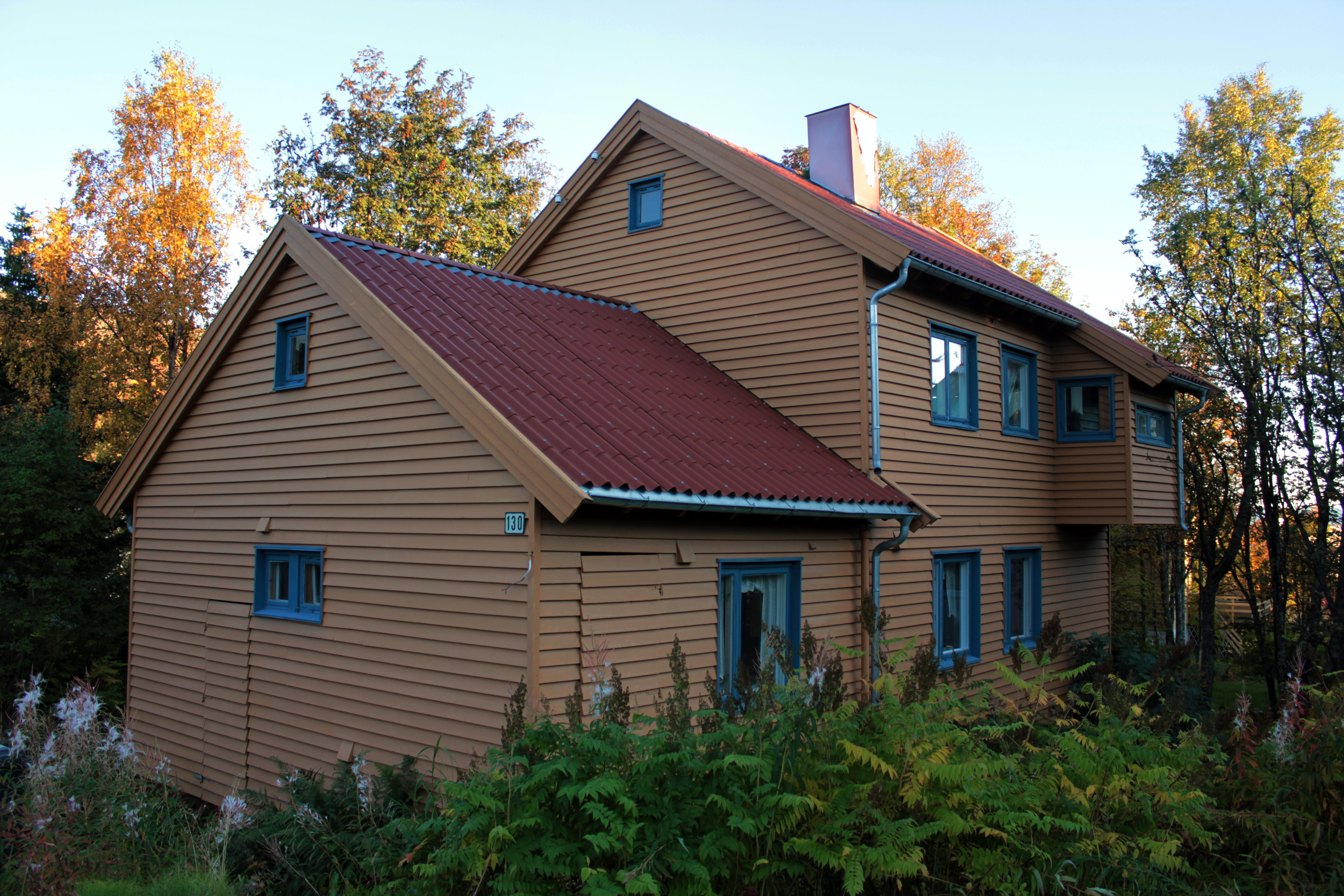 by Architect Kirsten Sand, Norway's first woman architect.